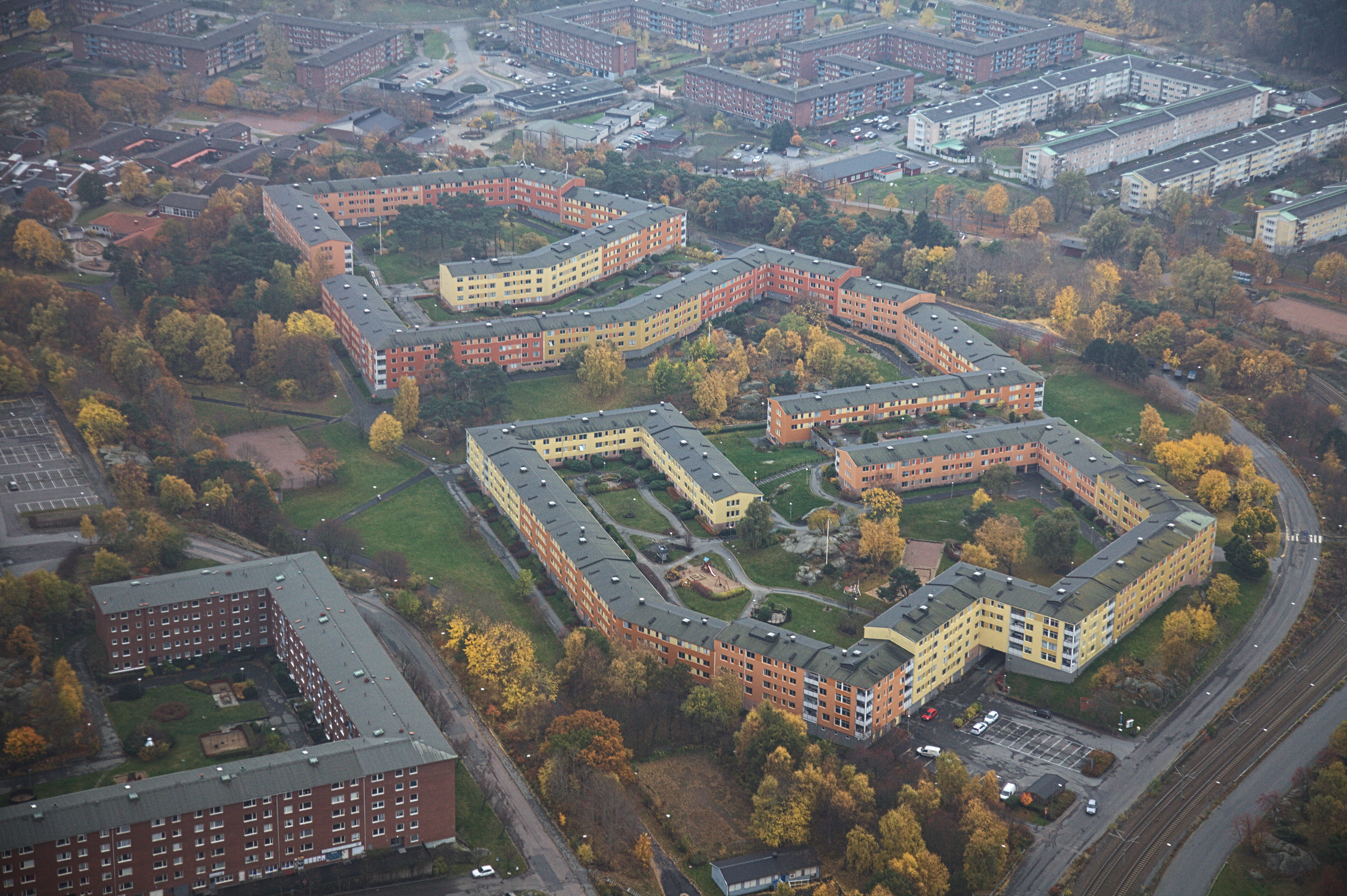 Photo taken on a helicopter over Gothenburg